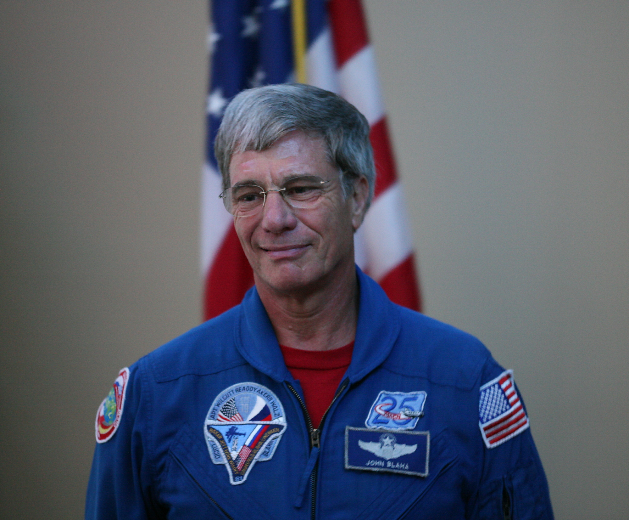 NASA Astronaut John Blaha at Kenedy Space Center